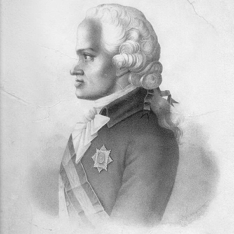 Pavel Grigorievich Demidov, 1853.